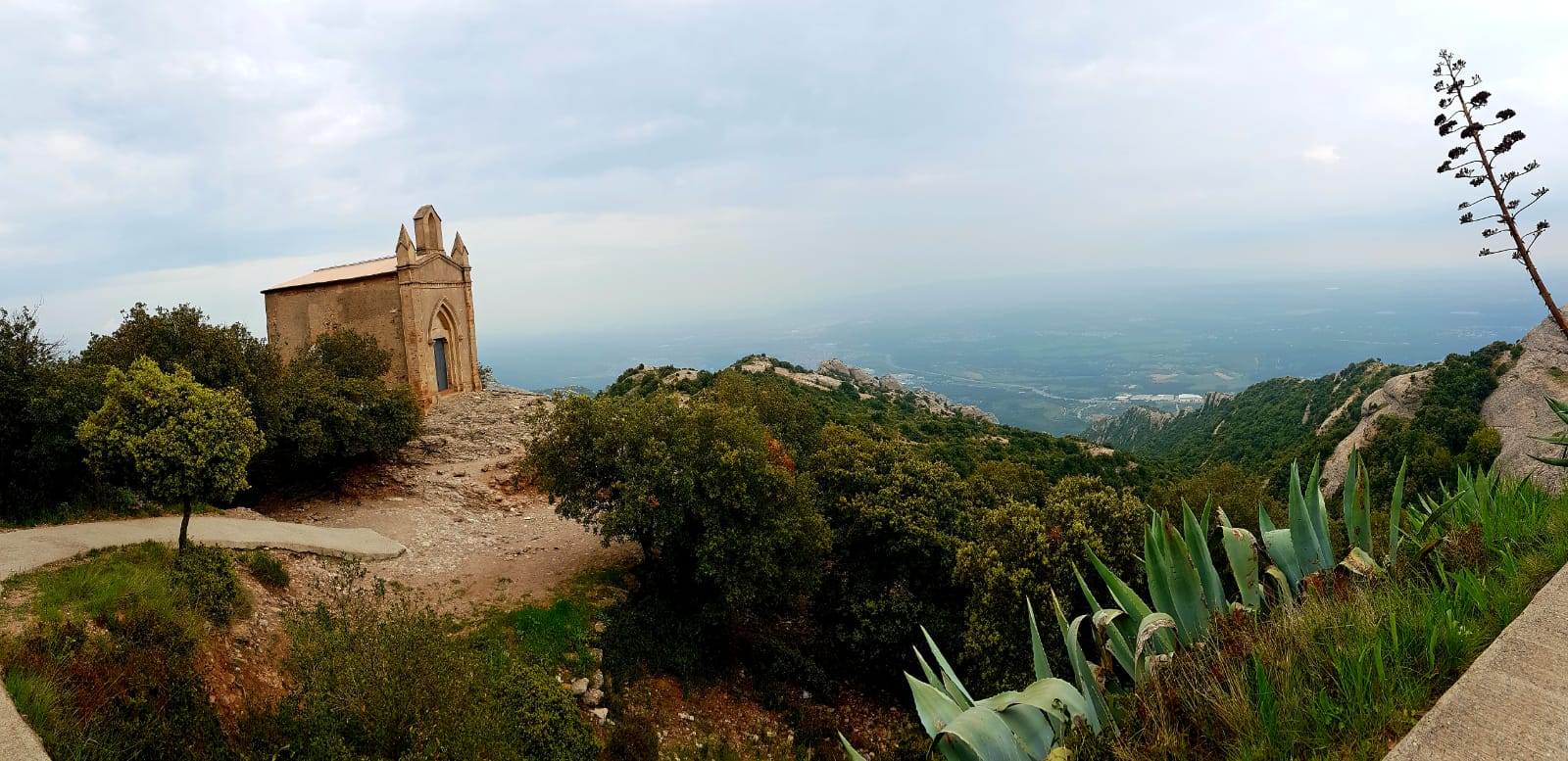 View from Montserrat, Costa Barcelona Аҧсшәа: Een uitzicht vanaf Montserrat, Costa Barcelona